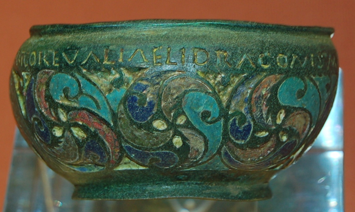 This bronze pan dating from the 2nd century AD. It was found in a very well preserved condition with intact enamel inlays. It is inscribed with the name Aelius Draco and the names of four forts on Hadrians Wall MAIS (Bowness-on-Solway) COGGABATA (Drumburgh) VXELODVNVM (Stanwix) CAMMOGLANNA (Castlesteads) Photo by Dominic Coyne, Young Graduates for Museums and Galleries programme August 2007.